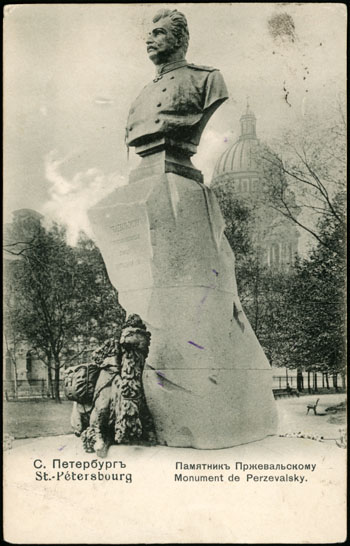 Saint Petersburg (Russia), Russian Admiralty, Monument to Nikolai Przhevalsky